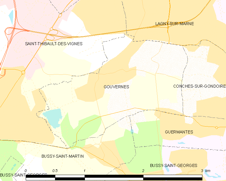 Map of French municipality Gouvernes